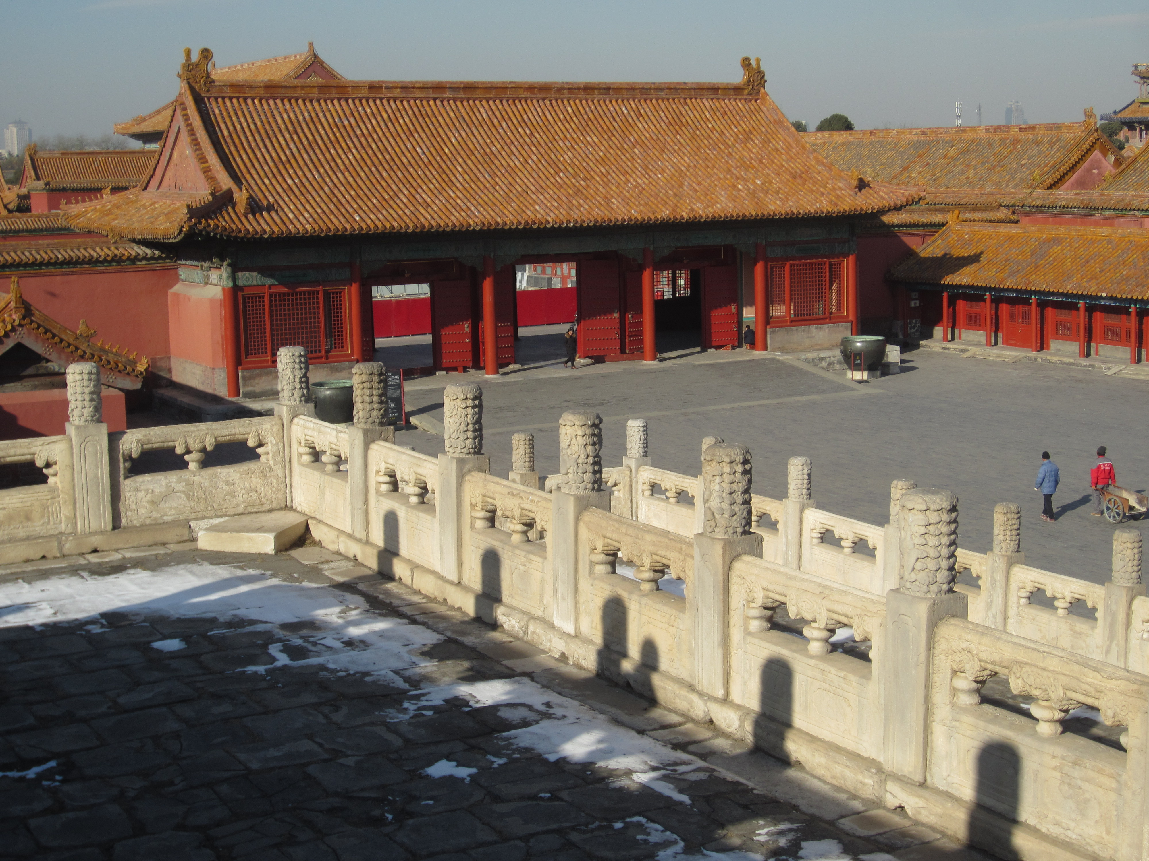 Beijing (November 2016)